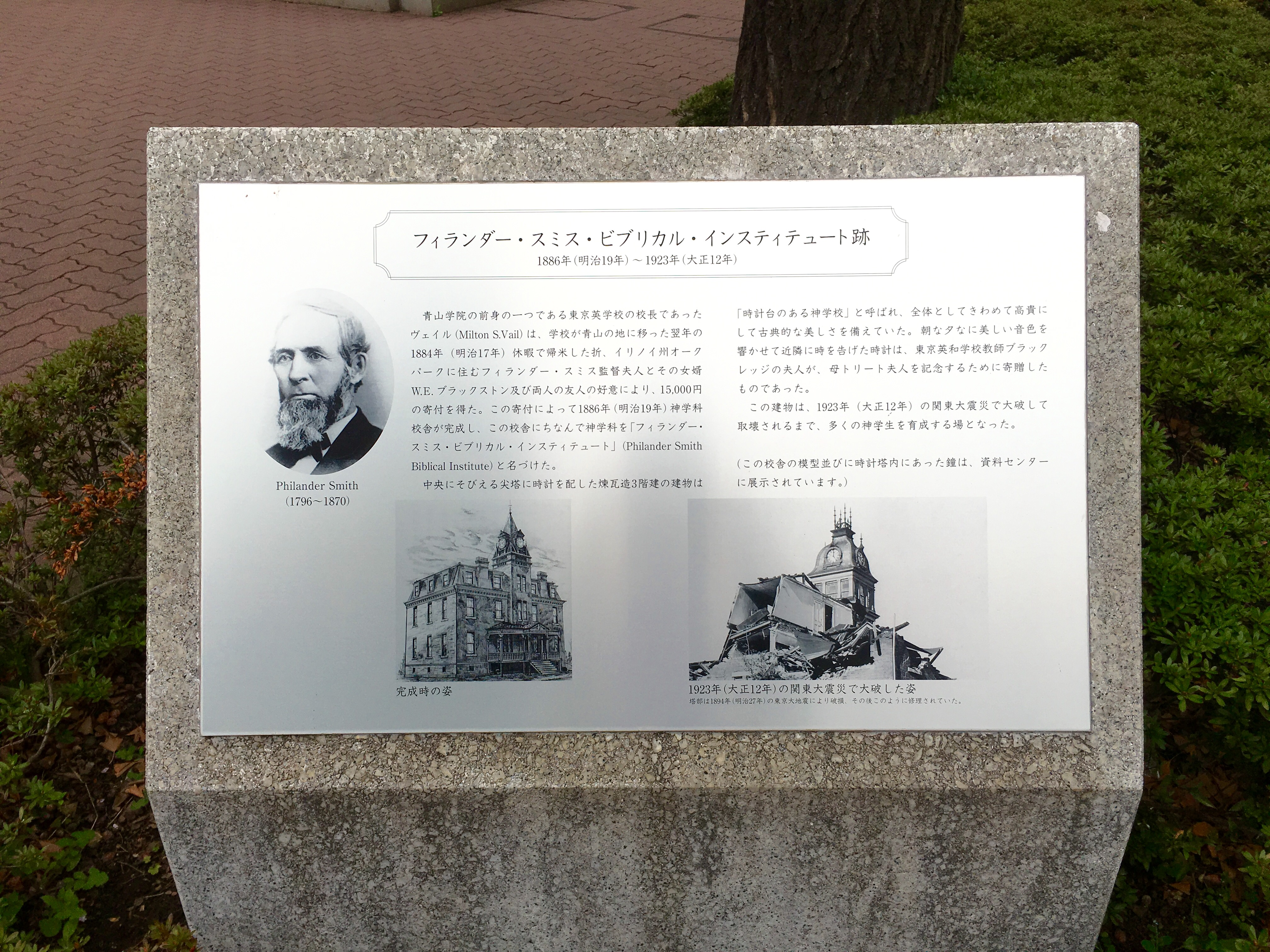 This is the monument of the clock tower of Aoyama Gakuin. The monument is located in the campus of Aoyama Gakuin .